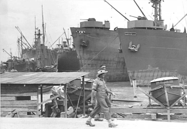 Lae, New Guinea. 1944-03-23. United States Liberty ships tied up for unloading at the docks, Headquarters Lae Base Sub-Area.